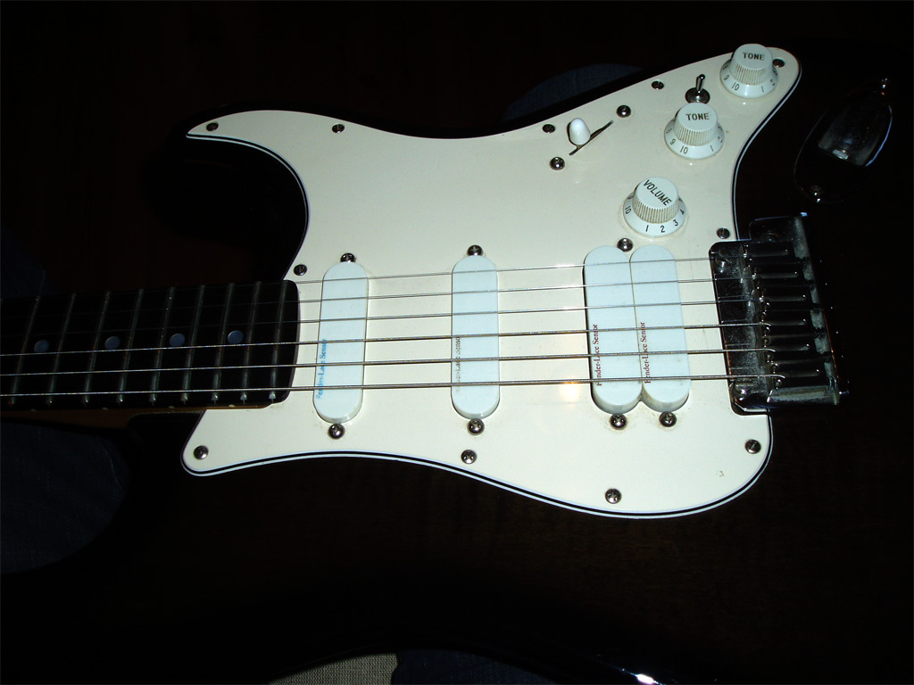 Stock pickguard for a Fender Strat Ultra guitar.